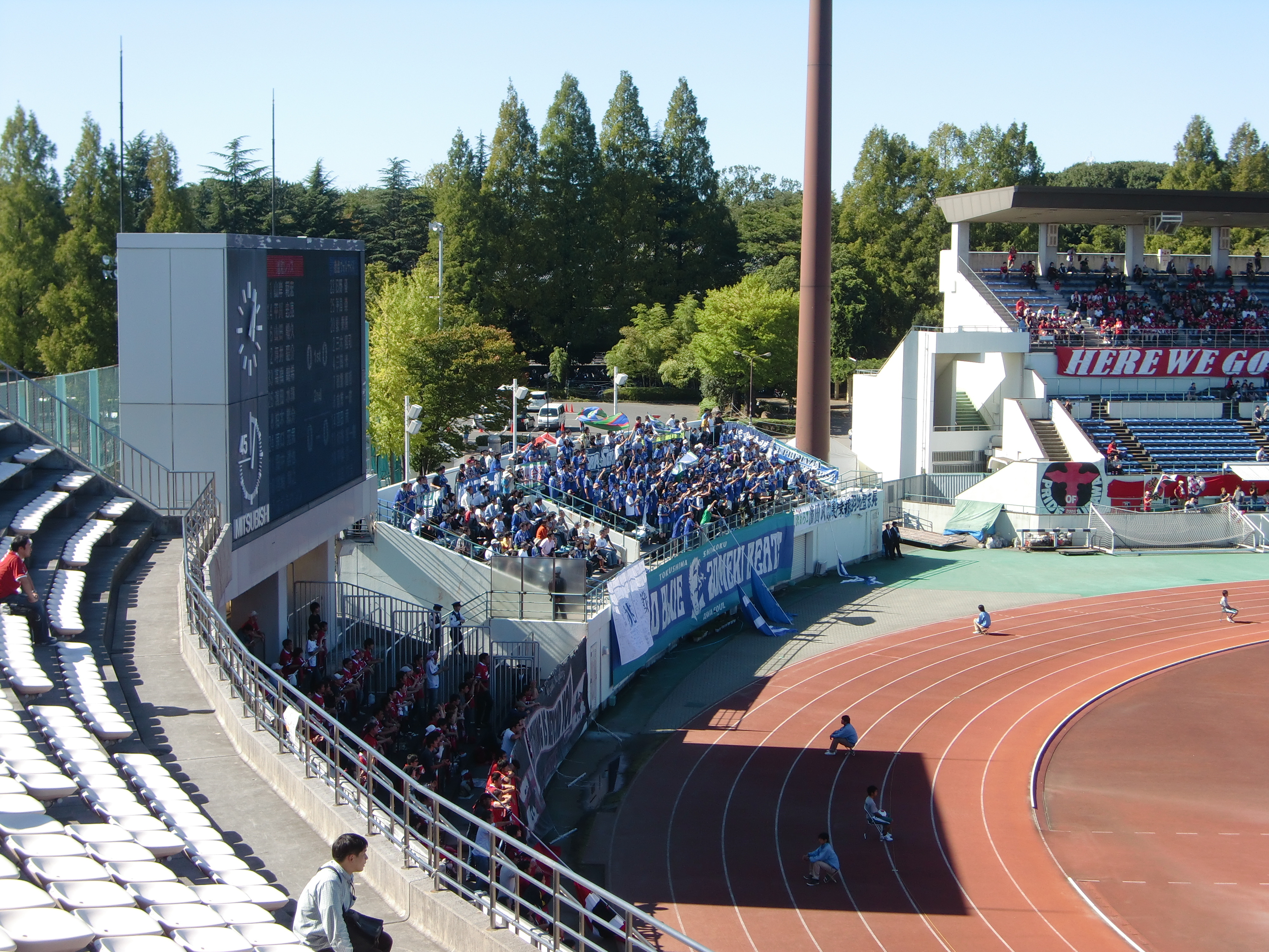 Saitama-shi Komaba stadium.